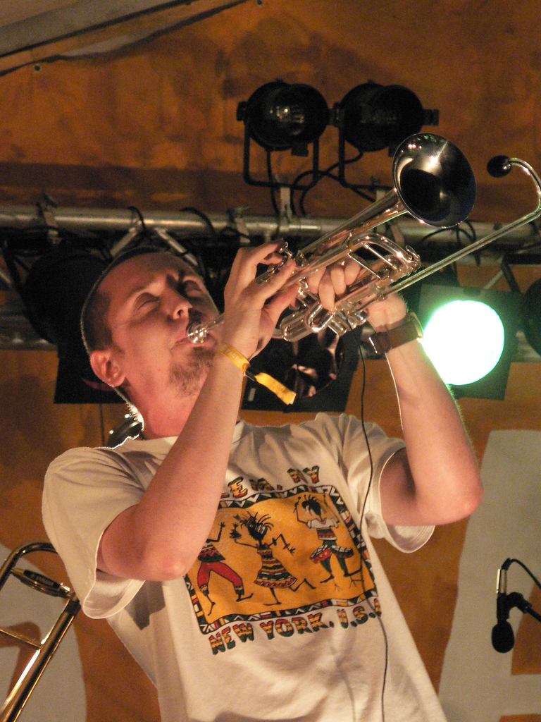 Markscheider Kunst trumpet player at Faces X